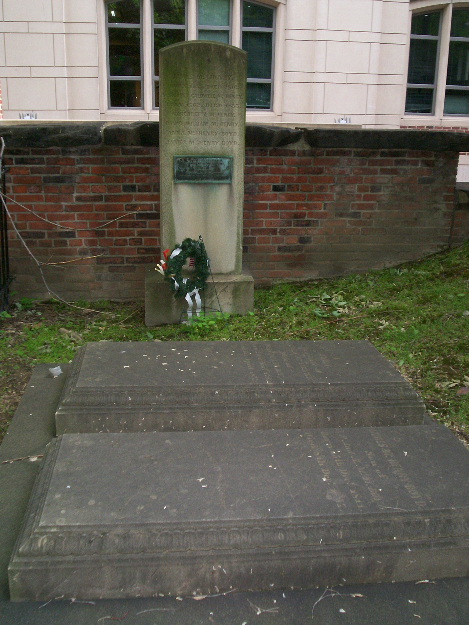 Grave of James McHenry, Westminster Hall and Burial Ground in Baltimore, Maryland.